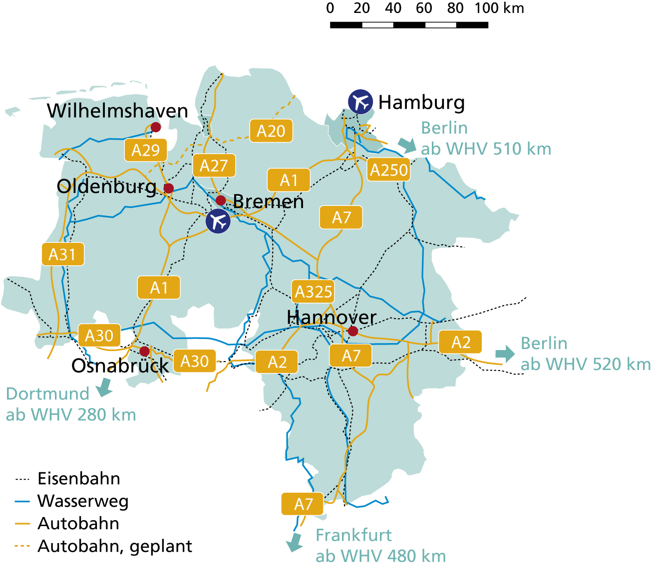 Infrastruktur